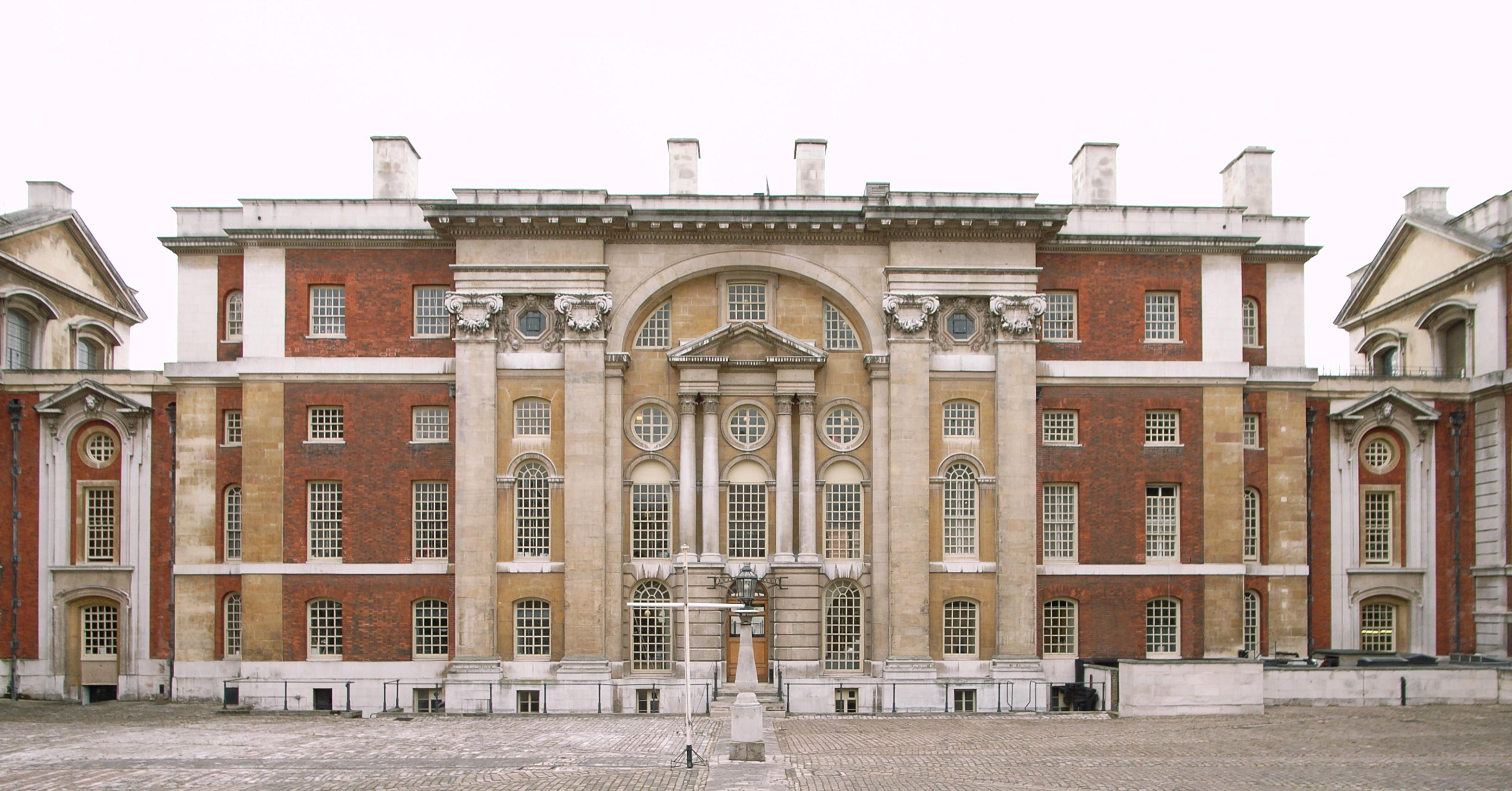 Facade to courtyard, King William's Block, Royal Naval Hospital, Greenwich (1701-2). Attributed to Nicholas Hawksmoor by the Pevsner's Guide.